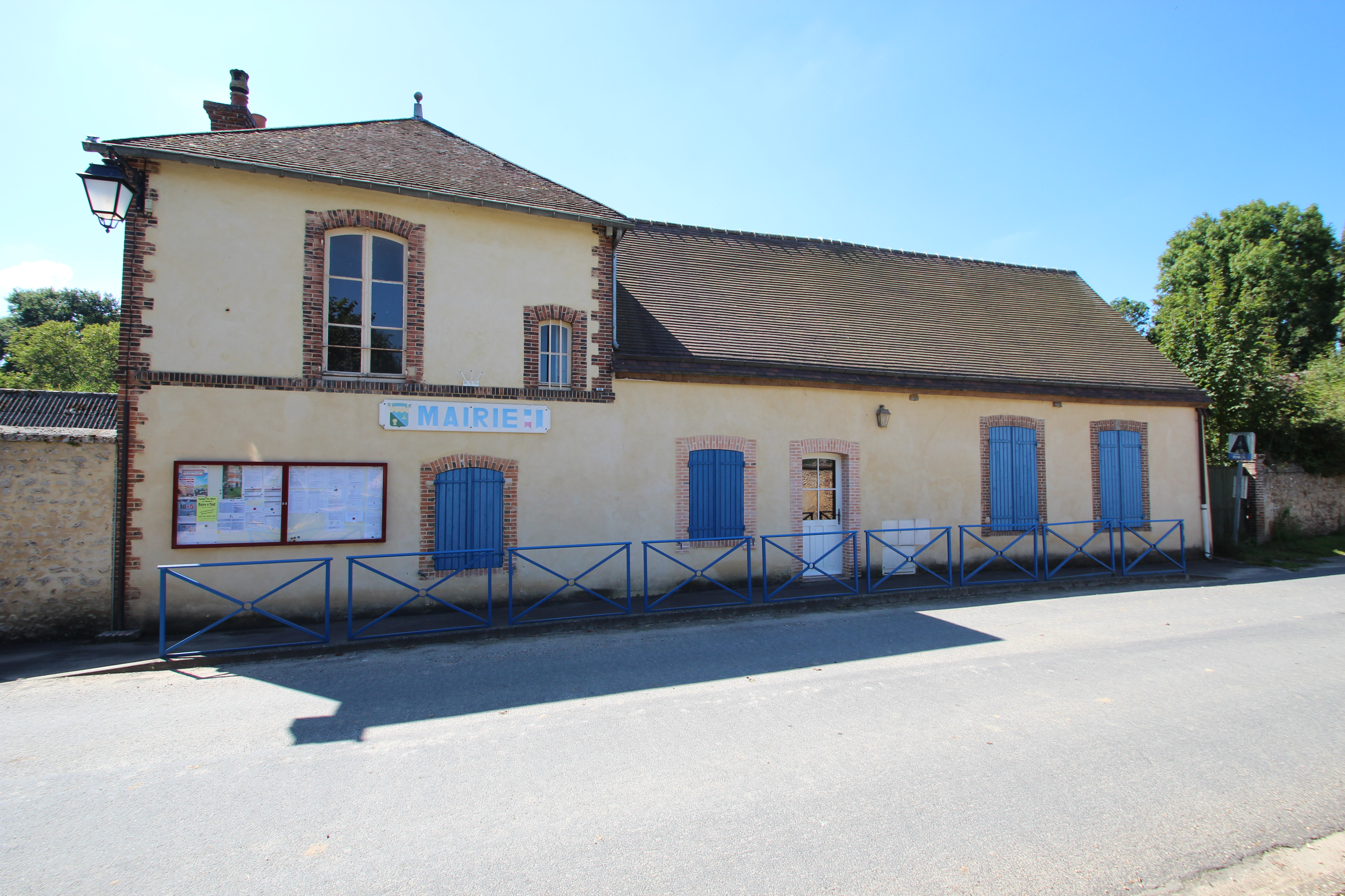 Town hall of Fontaine-les-Ribouts, France. Object location48° 39′ 14.23″ N, 1° 15′ 16.52″ E